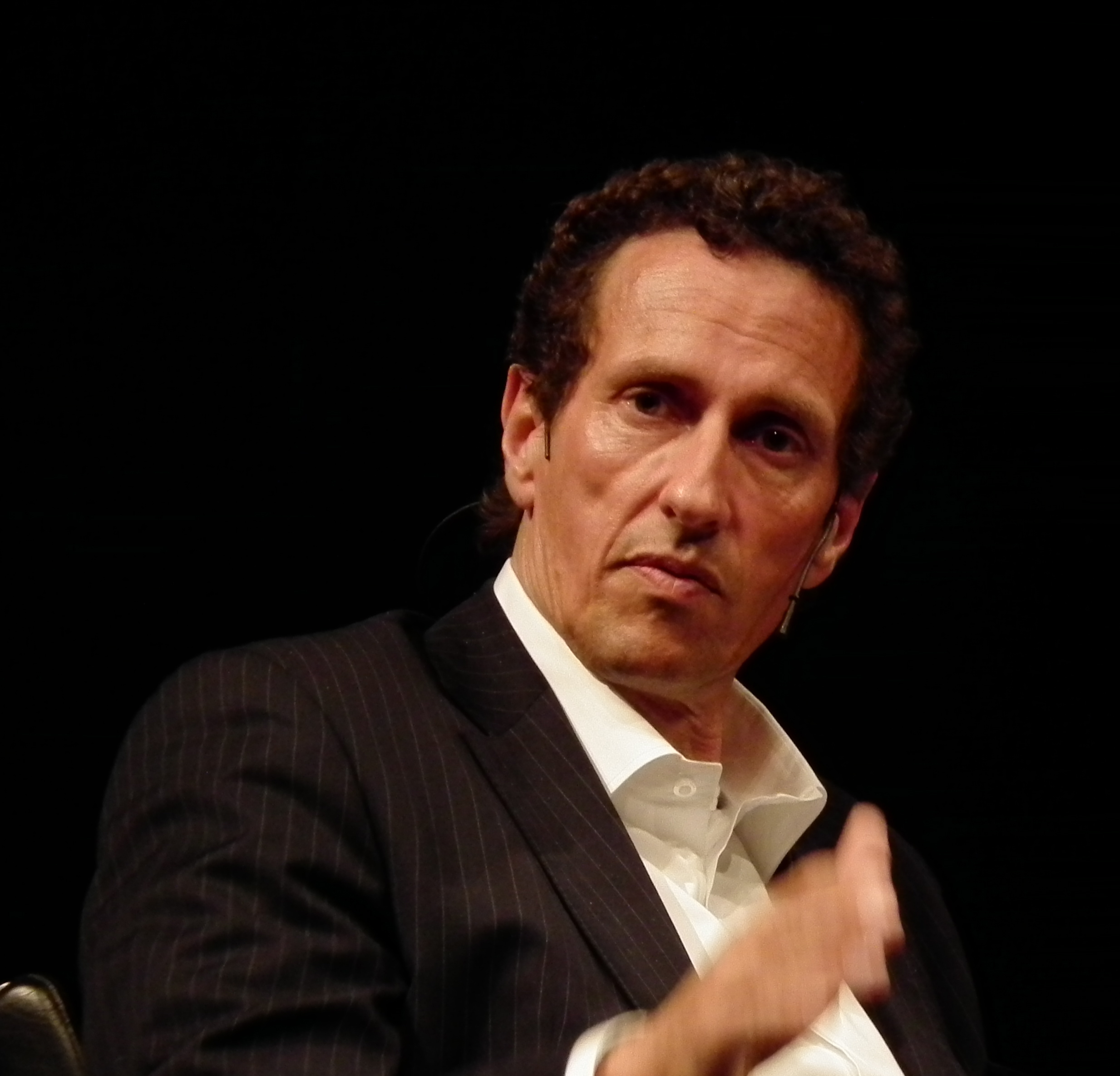 Julian Nida-Ruemelin giving a talk during Lit.Cologne 2012